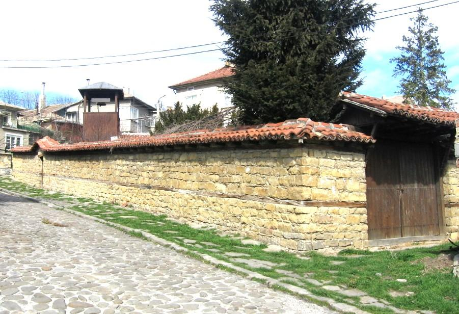 The old church of Popovo, Bulgaria